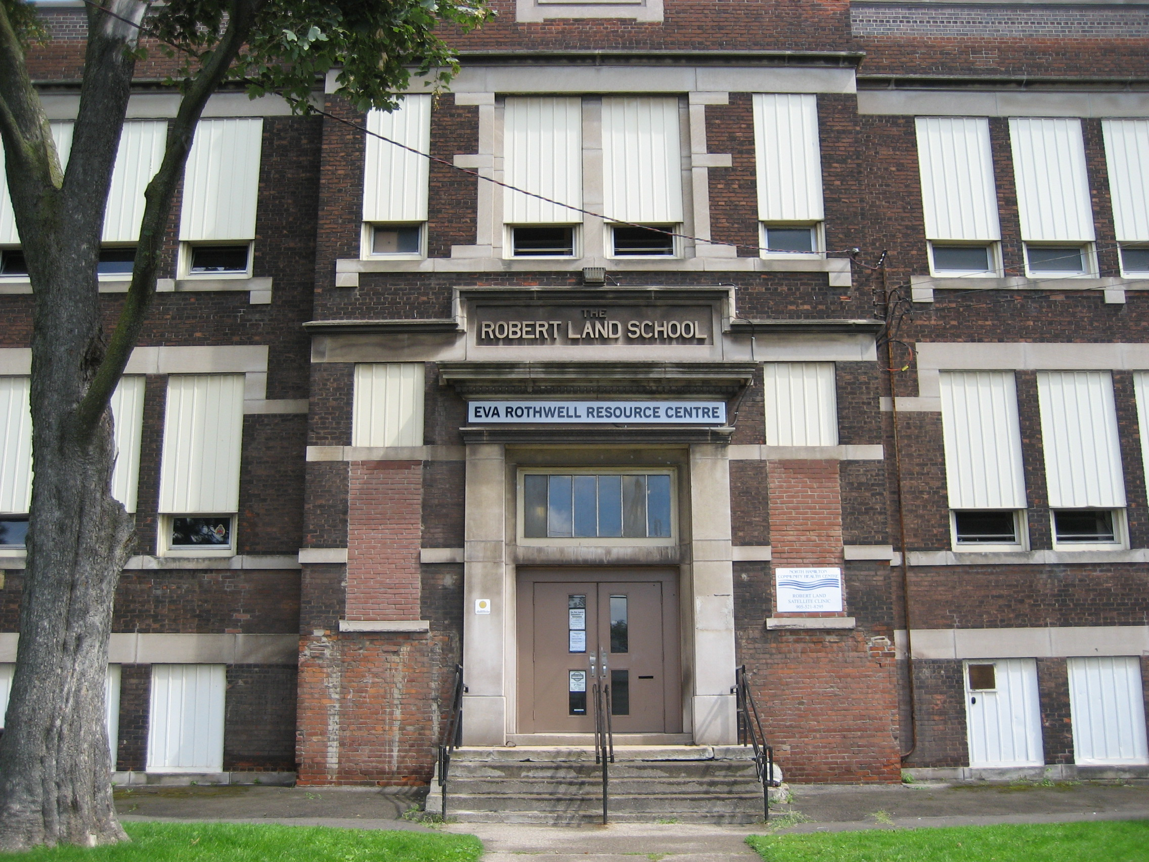 Robert Land School, Wentwworth Street North, Hamilton, Canada.